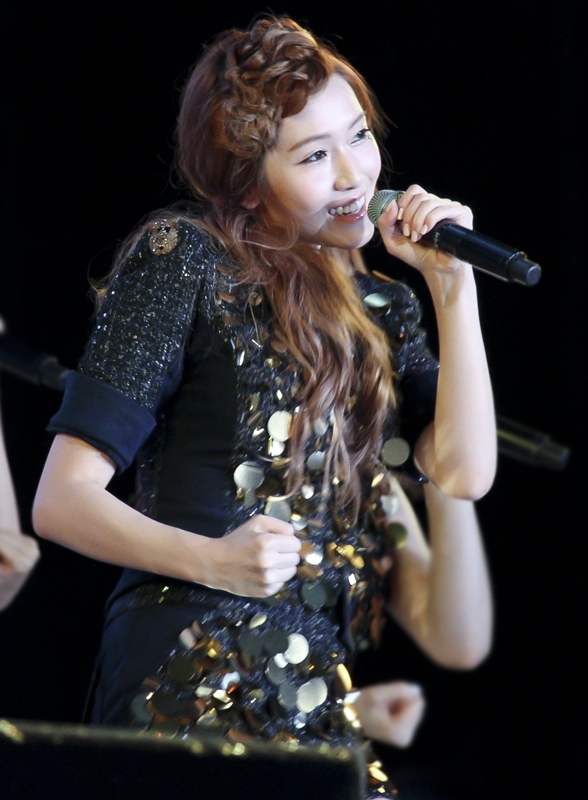 Jessica Jung at the SMTown Live World Tour III in Seoul August 18, 2012.